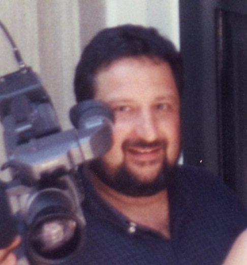 Bill Lichtenstein with camera